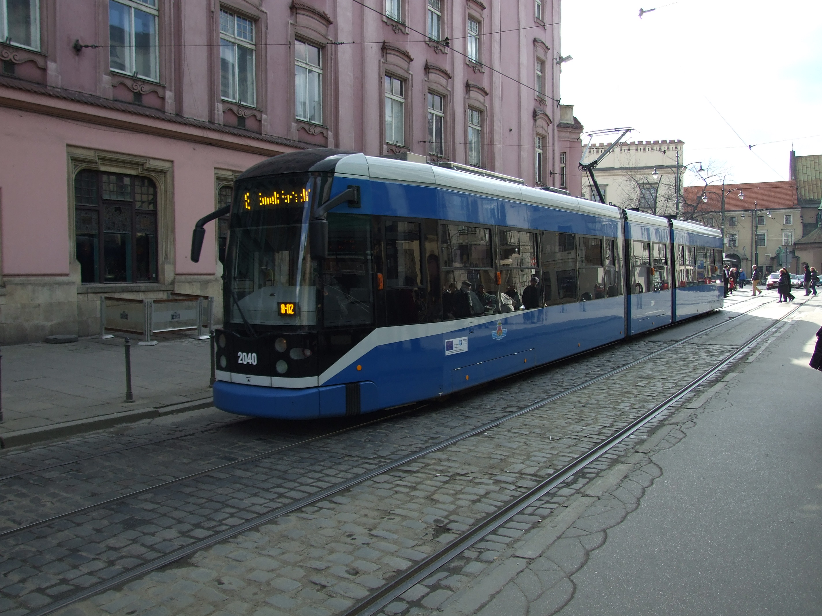 Tram transport in Krakow